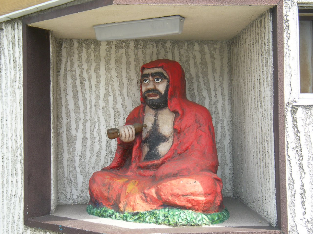 Daruma statue of Itsutsubashi. Shimizukōji, Wakabayashi ward, Sendai, Miyagi prefecture, Japan.